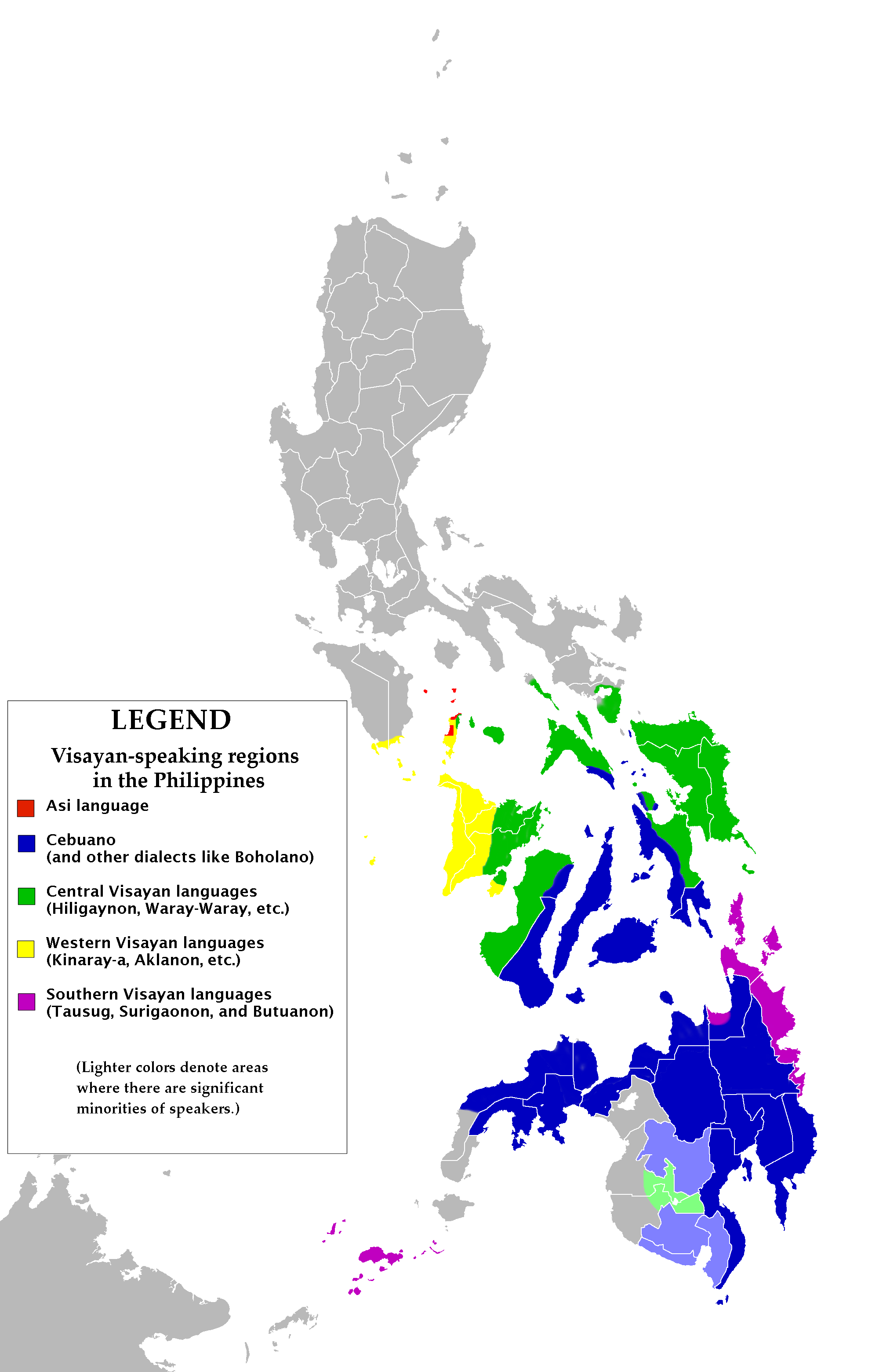 This is a map outlining the regions in the Philippines where the Visayan languages are spoken. The regions are color-coded based upon language family. Note that only the Philippines are included in this map despite the fact that Tausug language is also spoken in East Kalimatan (Indonesia) and Sabah (Malaysia).